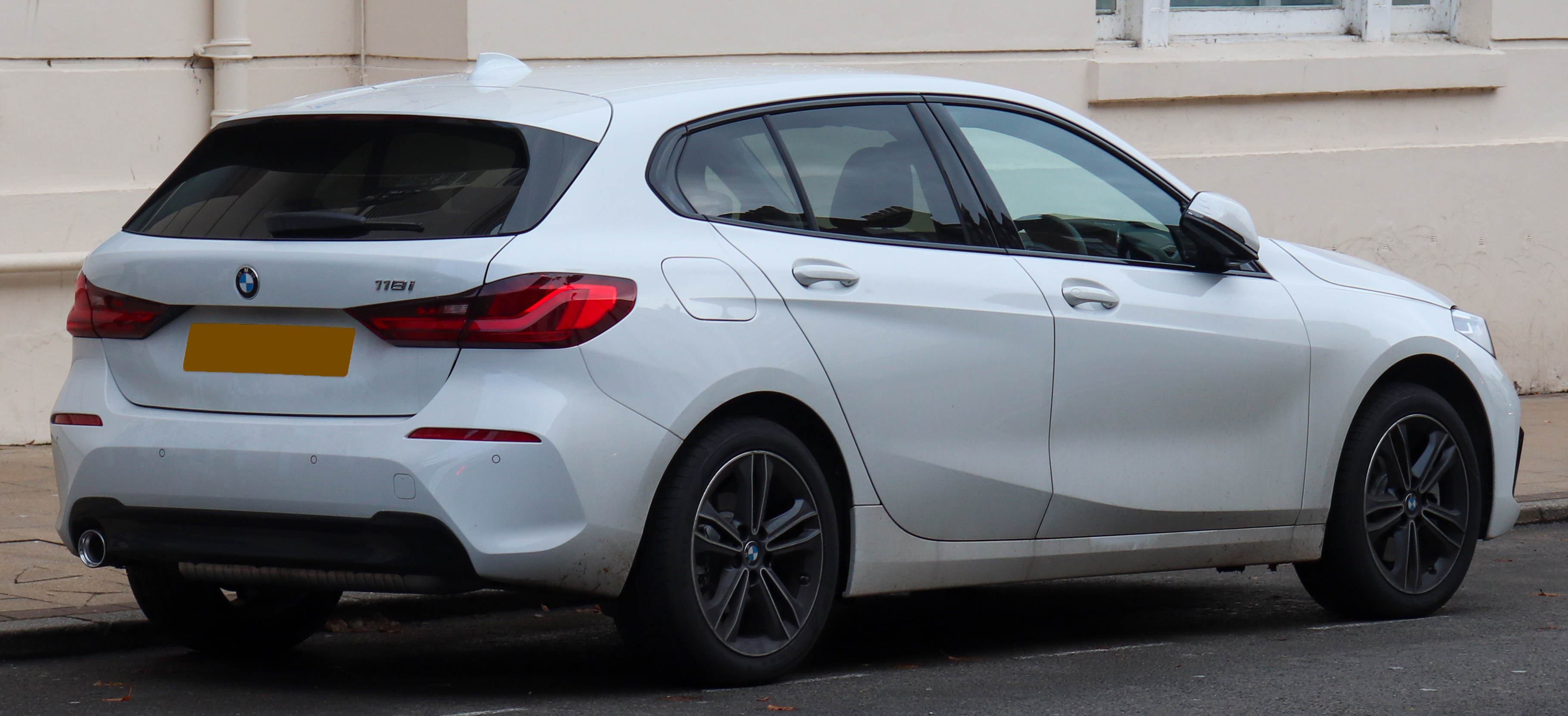 2019 BMW 118i 1.5 Rear Taken in Leamington Spa